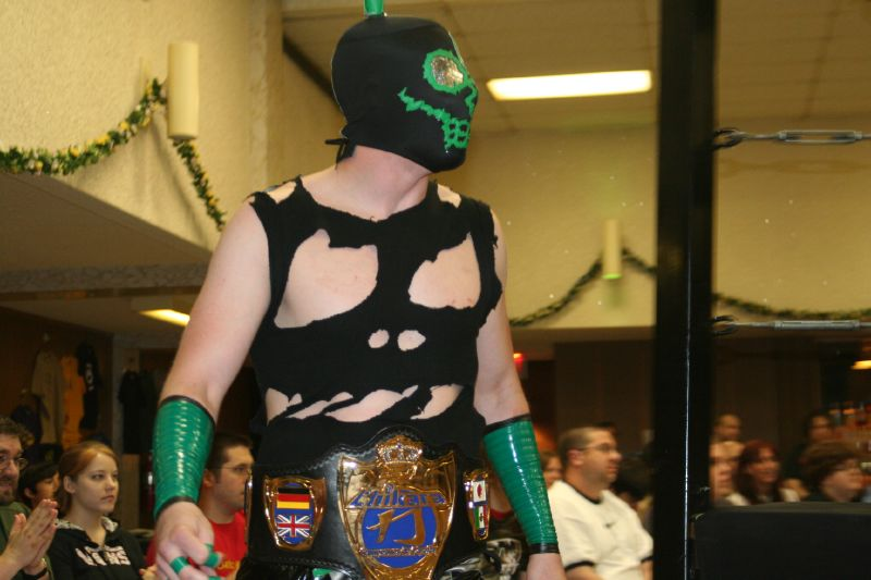 Hallowicked with one half of the Chikara Campeonatos de Parejas at a Chikara event